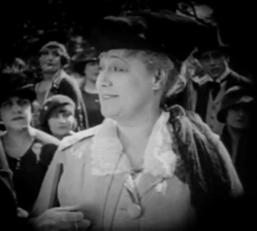 Lillian Langdon in Daddy-Long-Legs (1919 version) - cropped screenshot